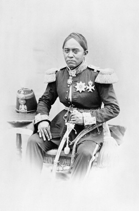 Photo. Hamengkubuwono VI, Sultan of Yogyakarta (1855-1977).